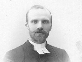 Swedish clergyman and bishop Carl Block